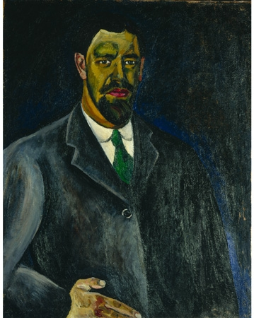 Self portrait of Pyotr Konchalovsky